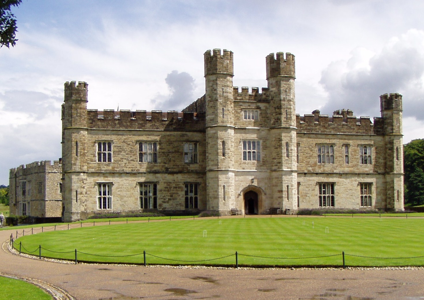 Leeds Castle, Kent, England